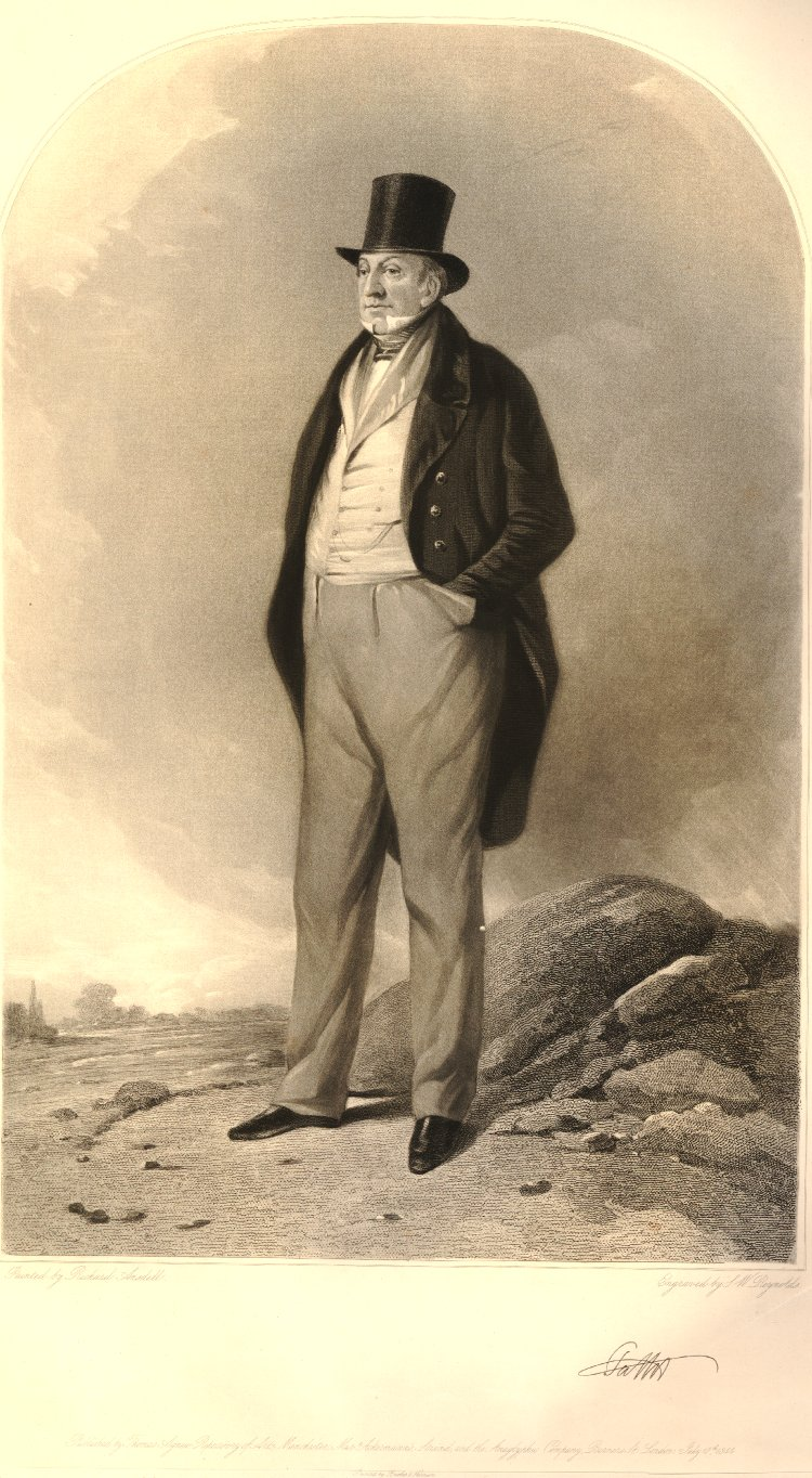 "Charles Chetwynd-Talbot, 2nd Earl Talbot," mezzotint and etching on collé, by the British printmaker Samuel William Reynolds II, after Richard Ansdell. State before sitter's autograph erased and letters added. 542 mm x 343 mm. Courtesy of the British Museum, London.